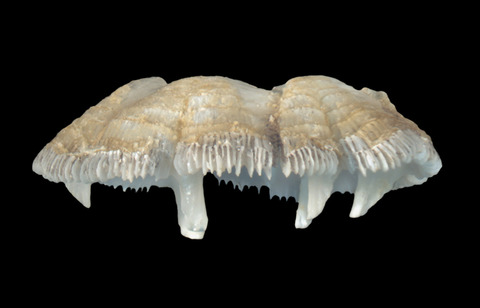 PRESERVED_SPECIMEN; ; ; dry; 70% alc.; ; BRC img; IZ number 52356; lot count 1; original catalog number YPM No. 28457; other number 227C; 2001-10-10T00:00:00Z